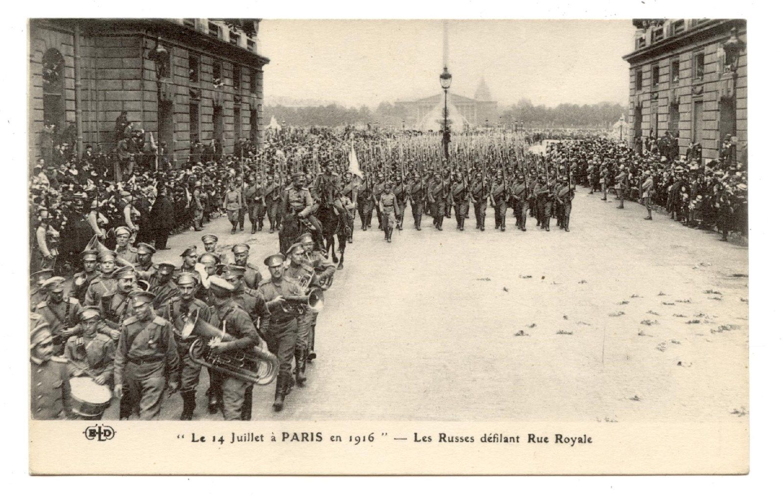 Russian Imperial Expeditionary Force in France. July 14th, 1916 in Paris.